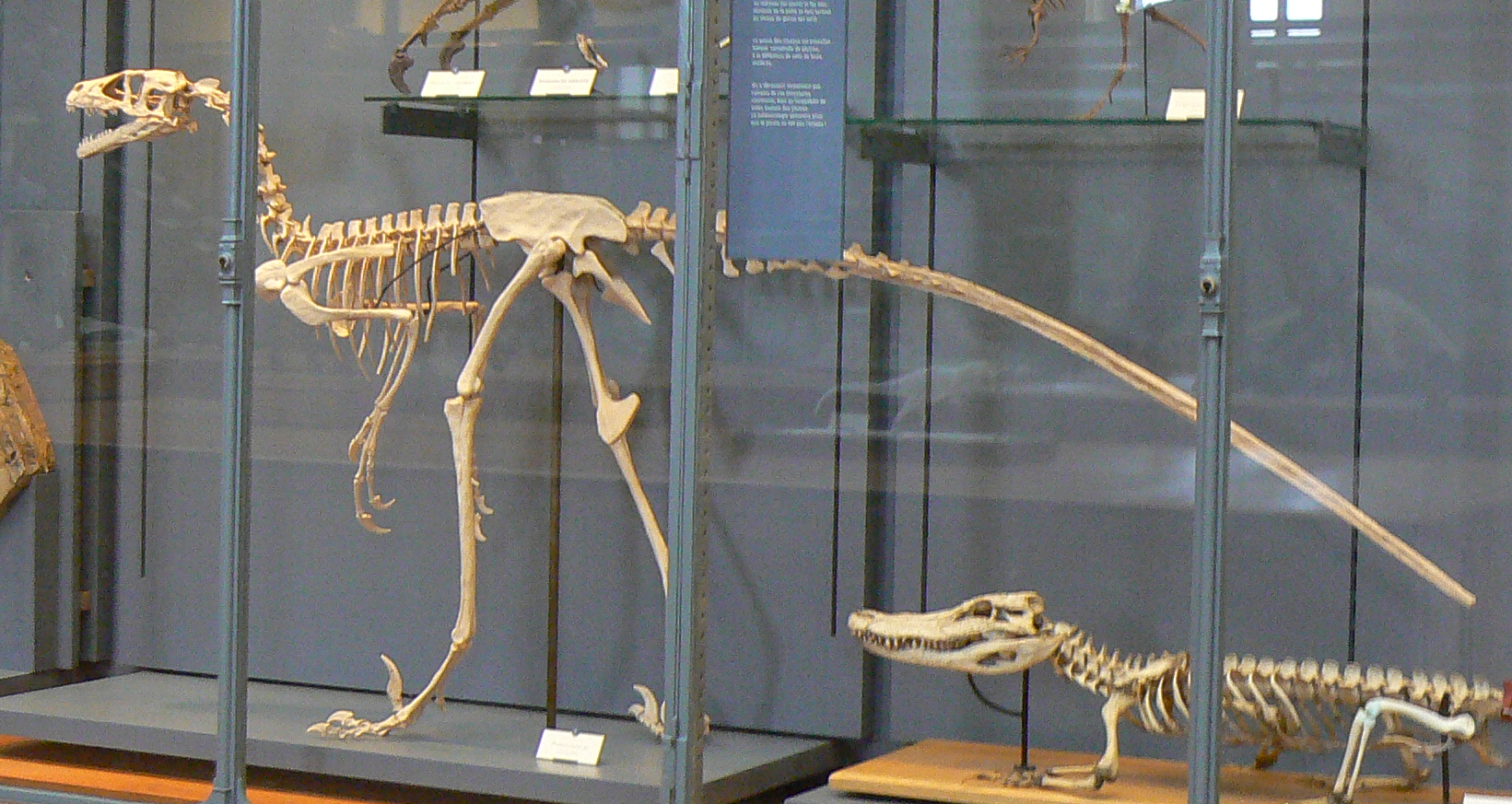 Dromaeosaurus skeleton. Behind is a skeleton of a crocodylian, and above it a skeleton of (possibly) Compsognathus.